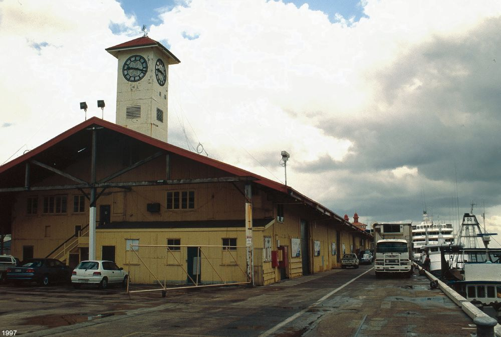 Cairns Wharf Complex, 1997